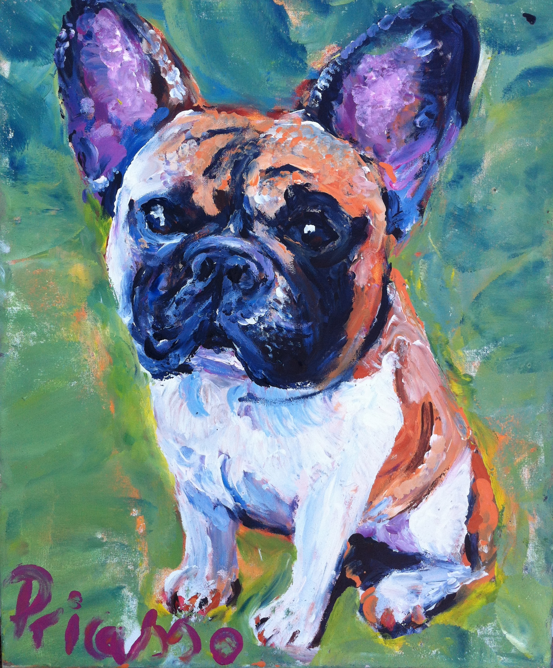 Painting of a dog made by Pricasso.